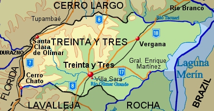 Map of Treinta y Tres Department, Uruguay.